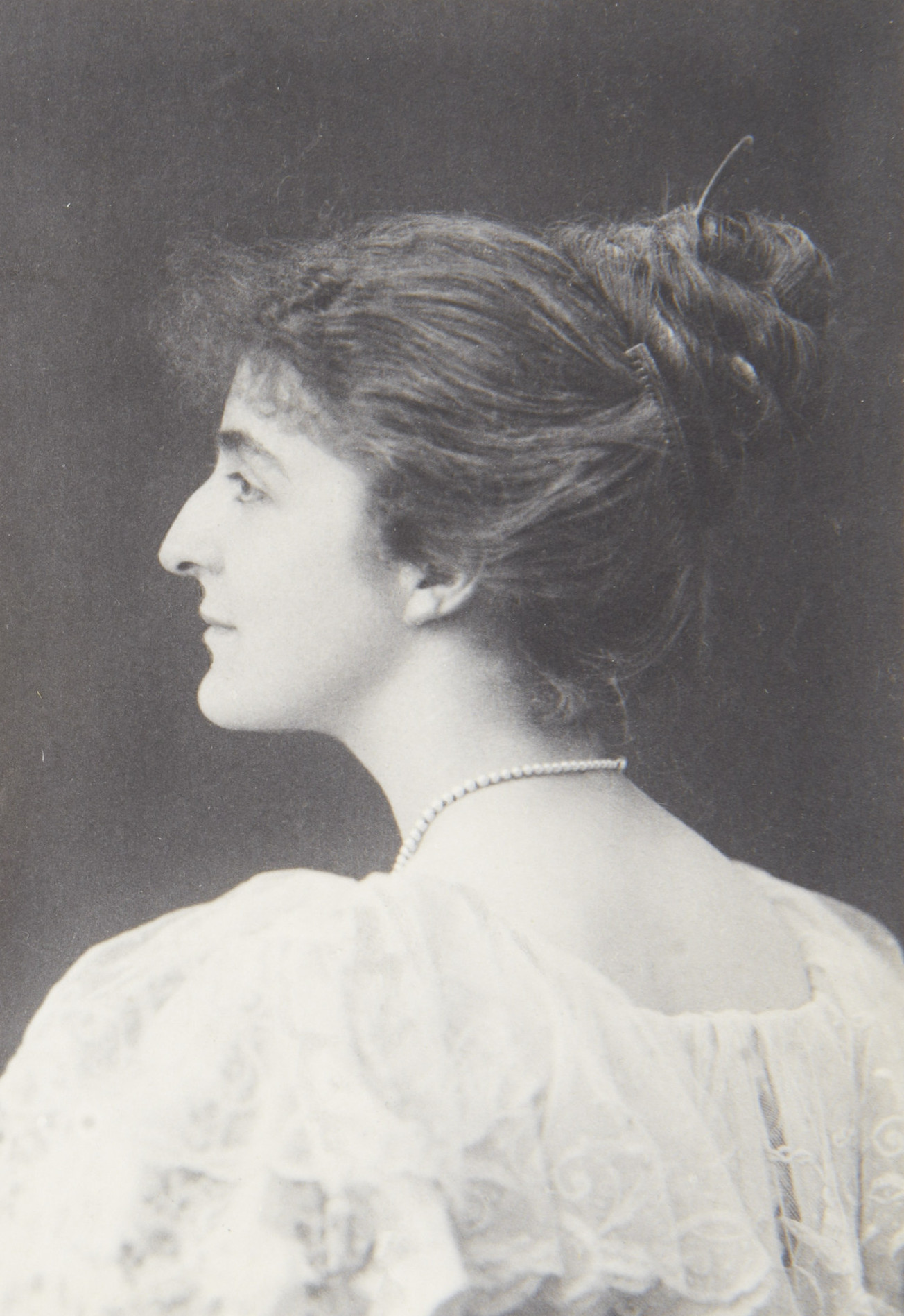 Miss Dorothea Parry (1876-1963), married April 12th 1898